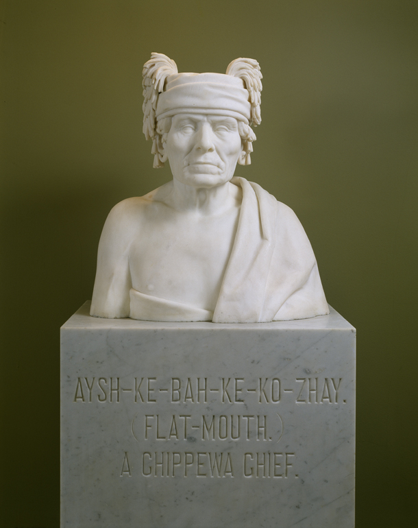 Aysh-ke-bah-ke-ko-zhay ojibwa chief